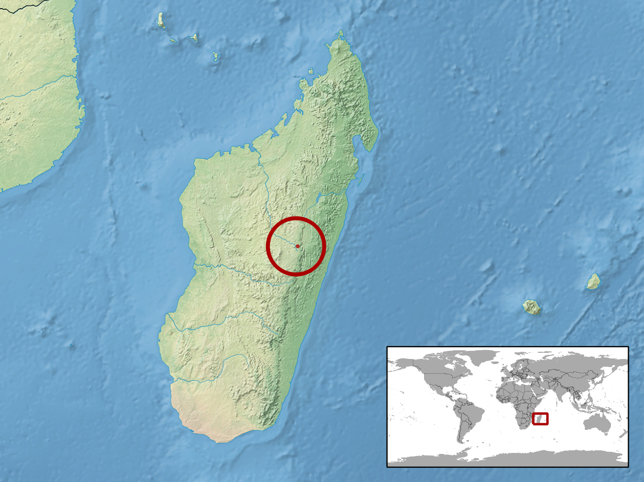 geographic distribution of Phelsuma pronki (Native: Madagascar)